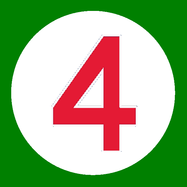 Boston Red Sox retired number.